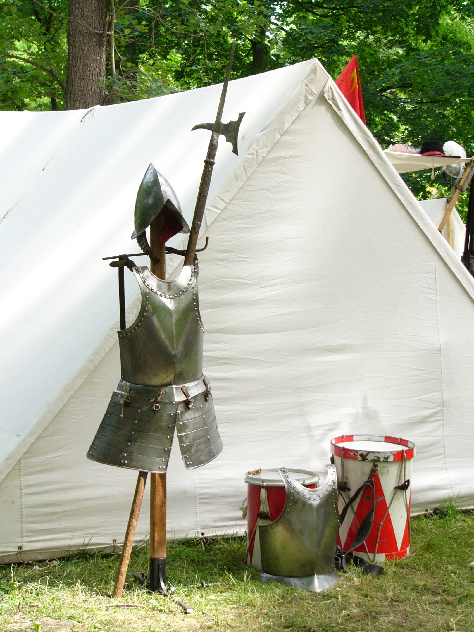 medieval helmet, two breastplates, faulds, a halberd and two military marching drums. New made replicas.